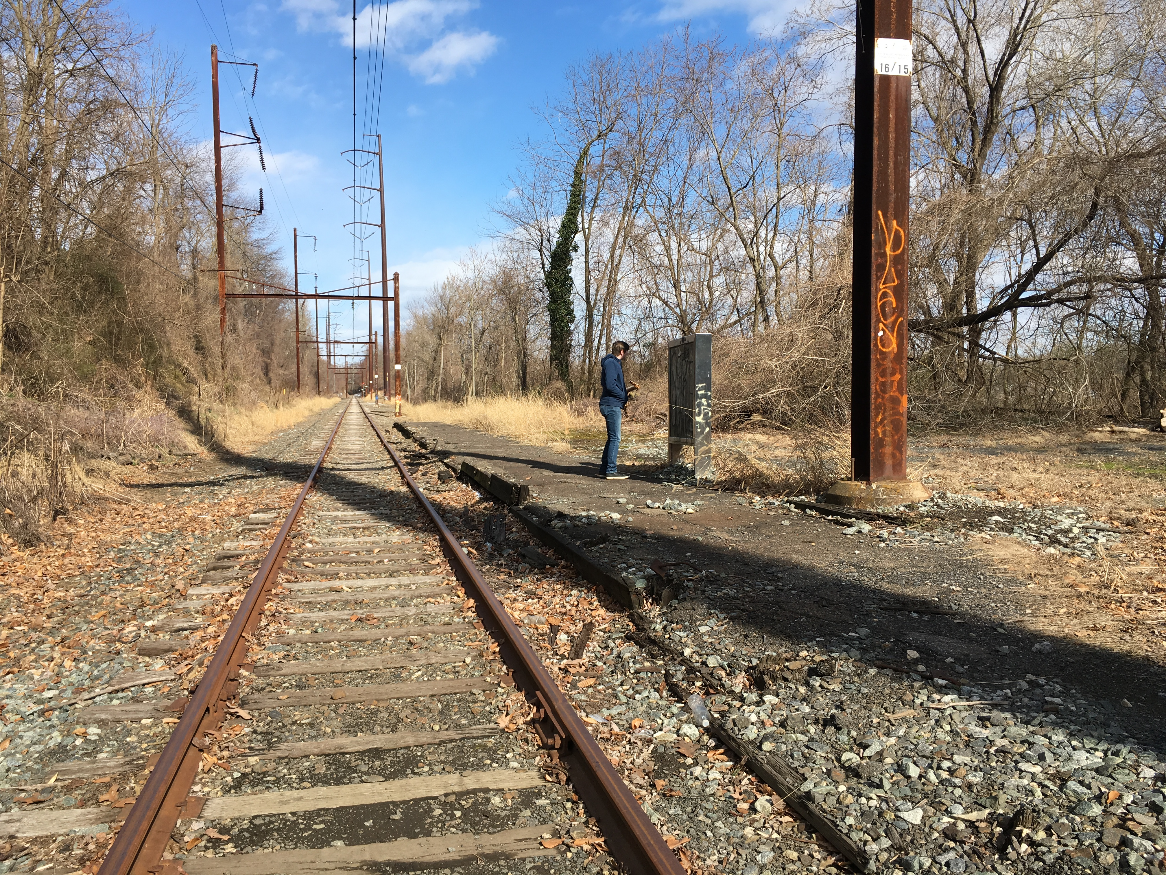 Looking down the former Glen Riddle station towards Center City in 2017